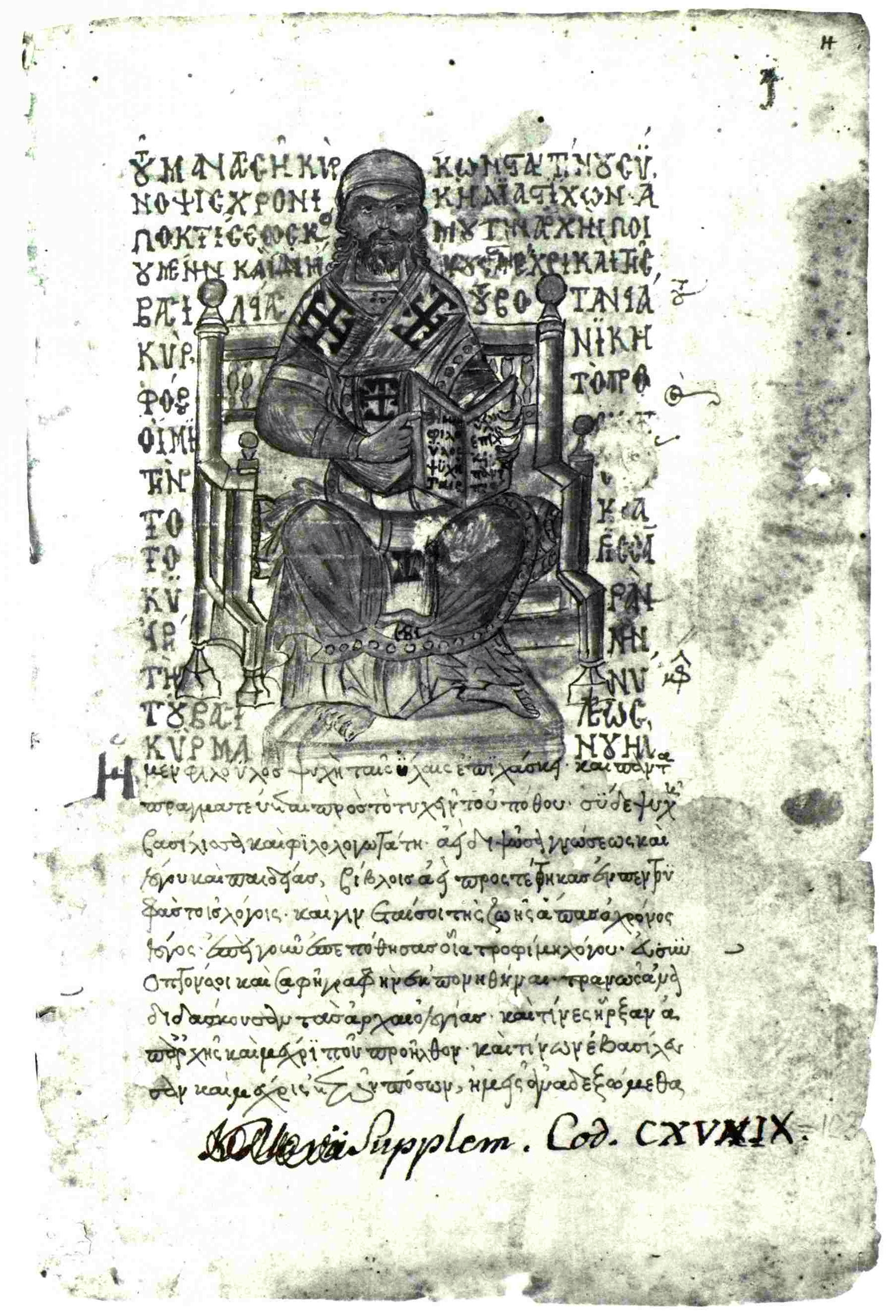 The beginning of the Chronicle of Constantine Manasses with a portrait of the author in the manuscript Vienna, Österreichische Nationalbibliothek, Cod. Hist. gr. 91, fol. 1r.